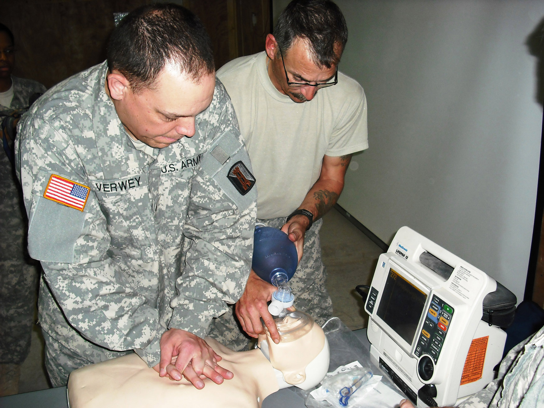 Sgt. Carl Verway, native of Vancleave, Miss., and Sgt. Bob Davis, native of Biloxi, Miss., perform cardiopulmonary resuscitation to a simulated cardiac arrest patient during the practical application portion of the Advanced Cardiac Life Support certification exam, Dec. 30, 2008. Verway and Davis are in the medical section of the 890th Engineer Battalion Forward Support Company, 926th Engineer Brigade, Multi-National Division – Baghdad.